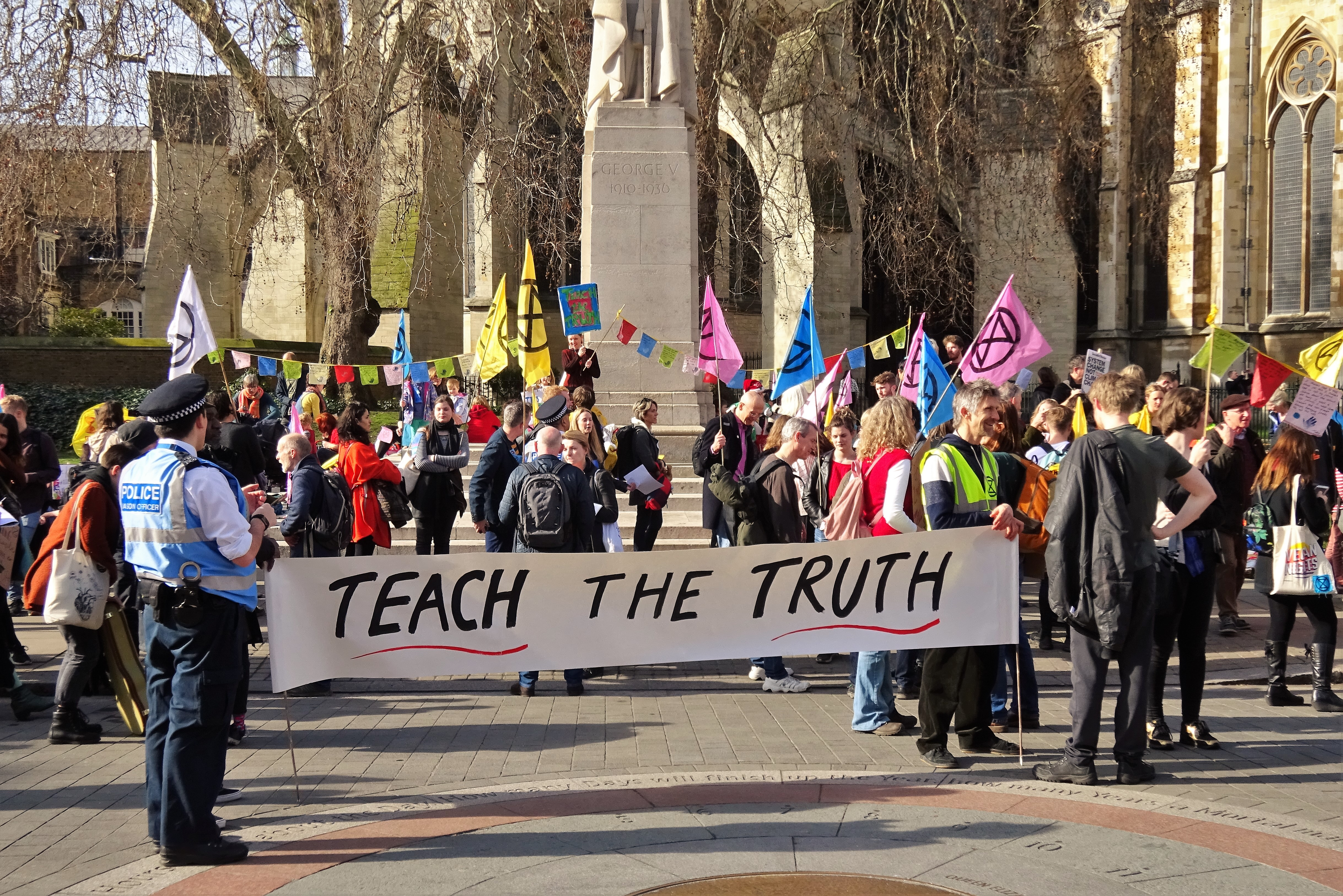 London February 22 2019 (30) Extinction Rebellion Tell the Truth Protest